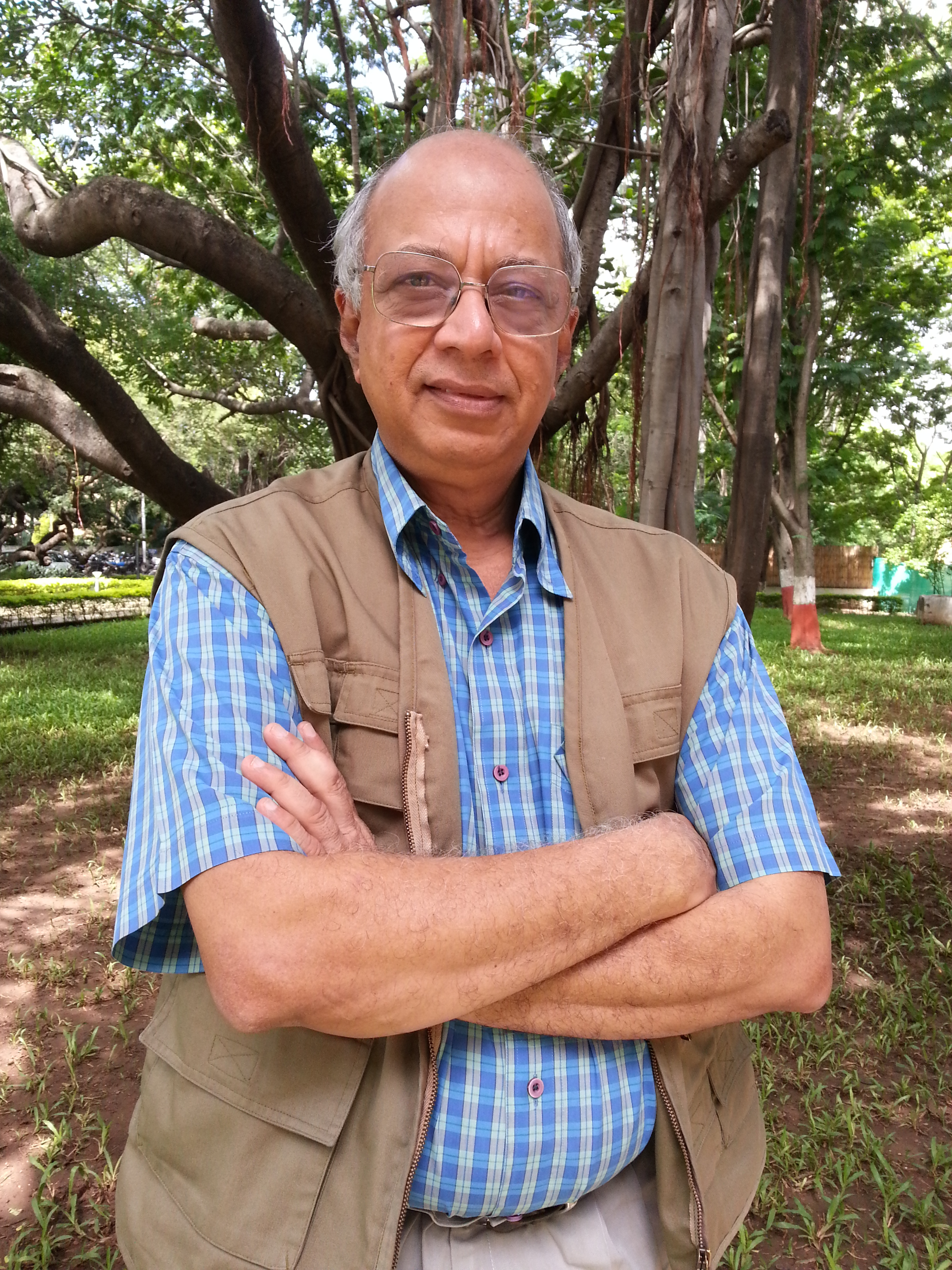 Satish Alekar is a famous Marathi playwright based in Pune, India.